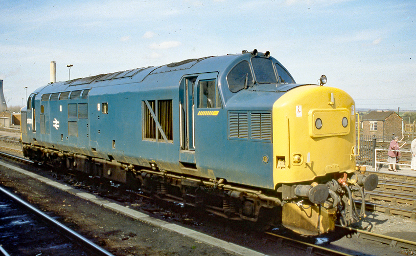 37 263 BR Class 37/0 loco in BR blue livery with small logos at Didcot. Now preserved at Tyseley. Renumbering history: D6963 37263 Scanned from a Kodachrome 35mm slide.